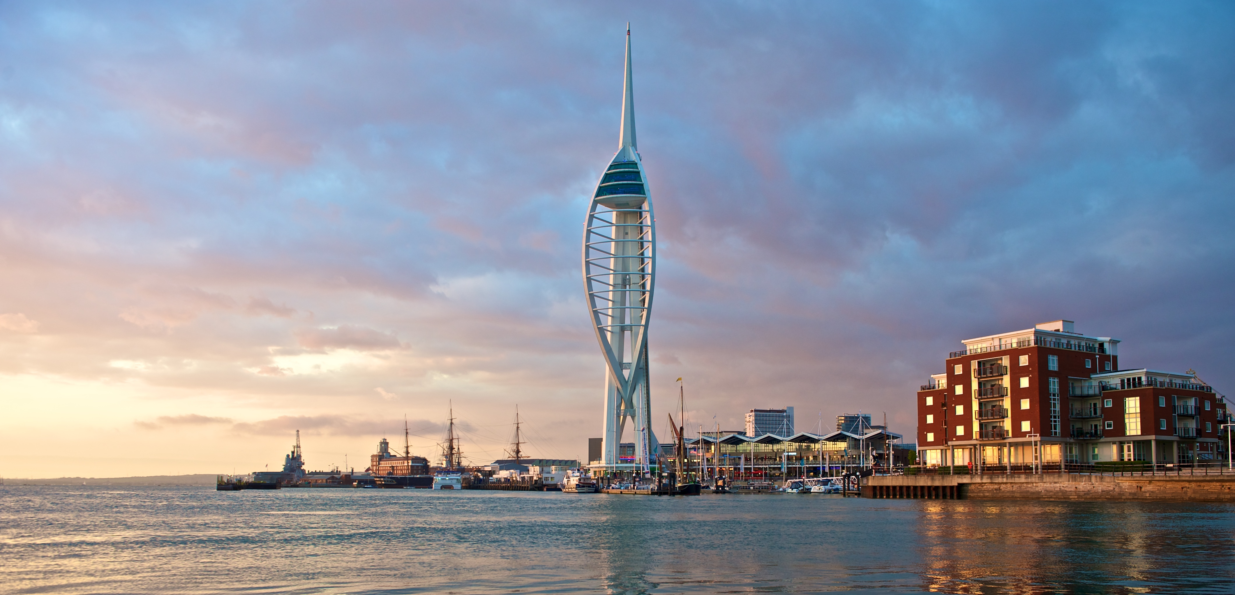 Portsmouth Harbour